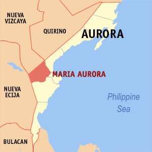 Map of Aurora showing the location of Maria Aurora